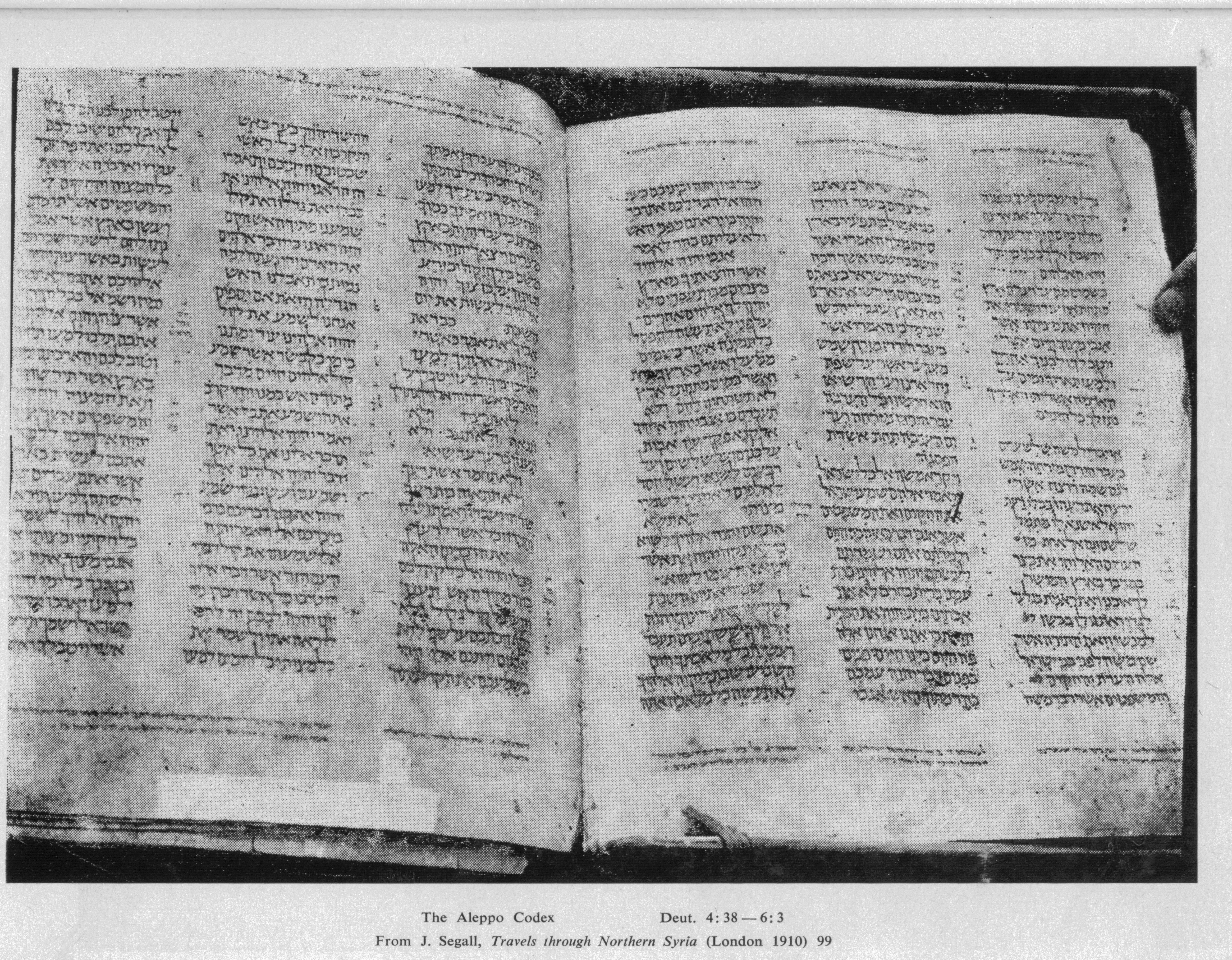 Image of photograph of a now-missing page from the Aleppo Codex taken in 1910 by Joseph Segall and published in Travels through Northern Syria (London, 1910), p. 99. Reprinted and analyzed in Moshe H. Goshen-Gottstein, "A Recovered Part of the Aleppo Codex," Textus 5 (1966):53-59 (Plate I).